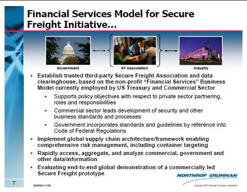 US DHS project